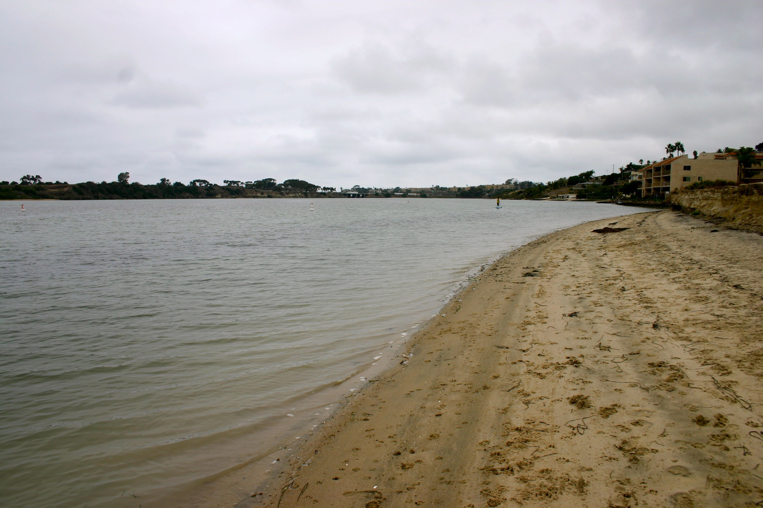 Looking to the west across the Agua Hedionda Lagoon, from near its eastern end. Located on the coast in Carlsbad, San Diego County, Southern California. Habitat for endangered Tidewater goby (Eucyclogobius newberryi) fish.